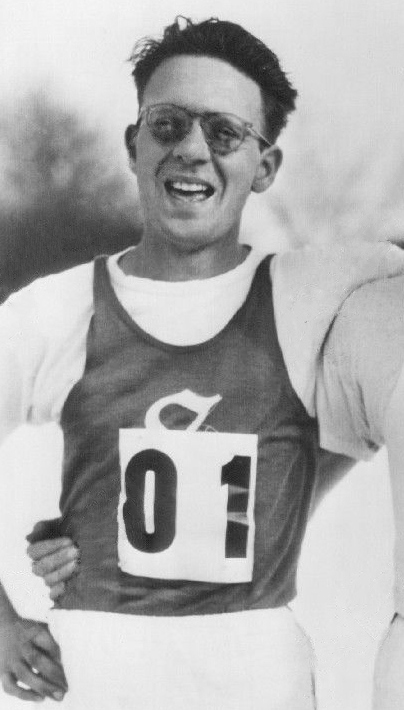 1949 AAU Cross Country FBI Agent Fred Wilt Won & Curtis Stone 2nd Press Photo